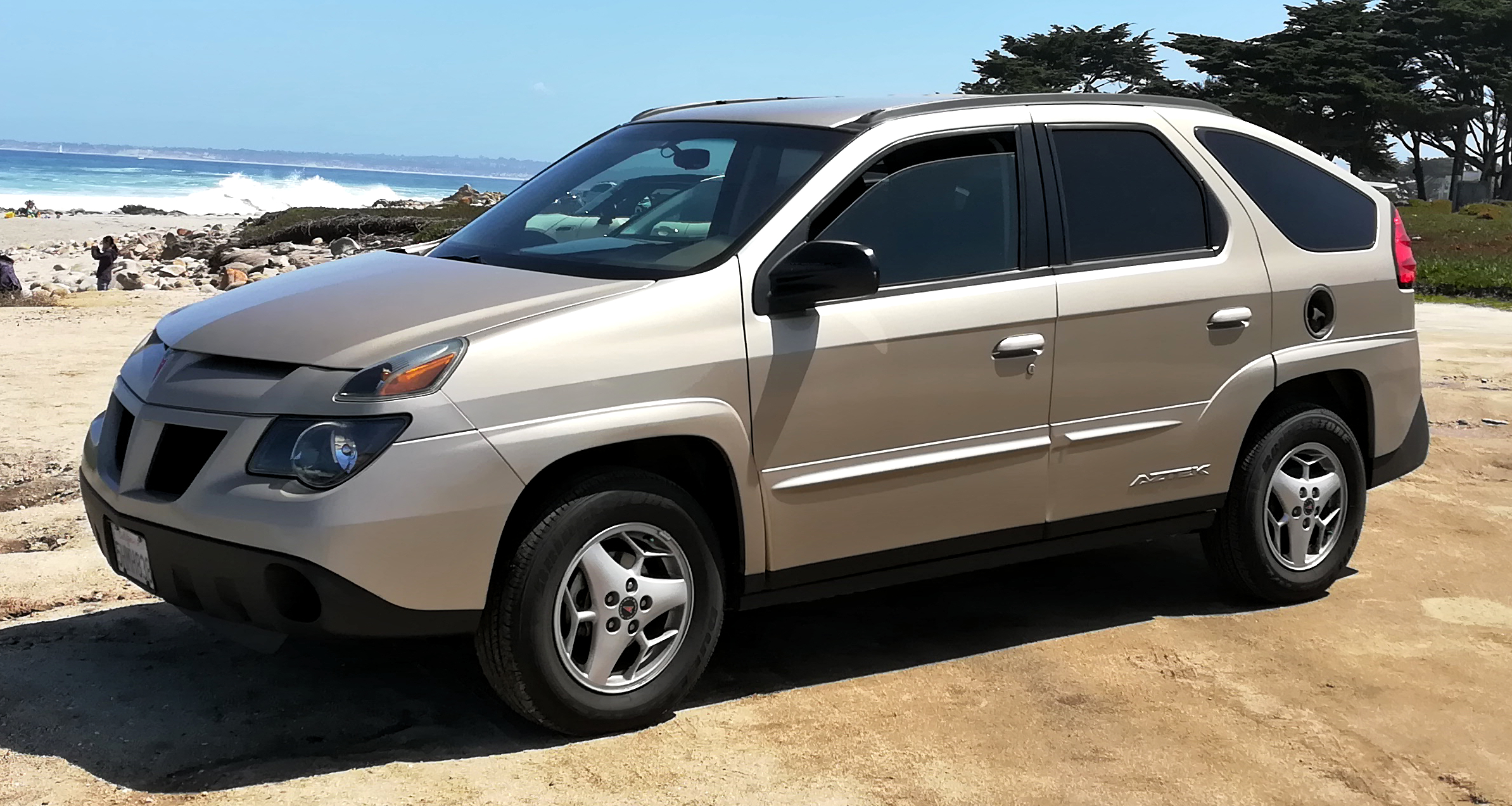 Pontiac Aztek in California